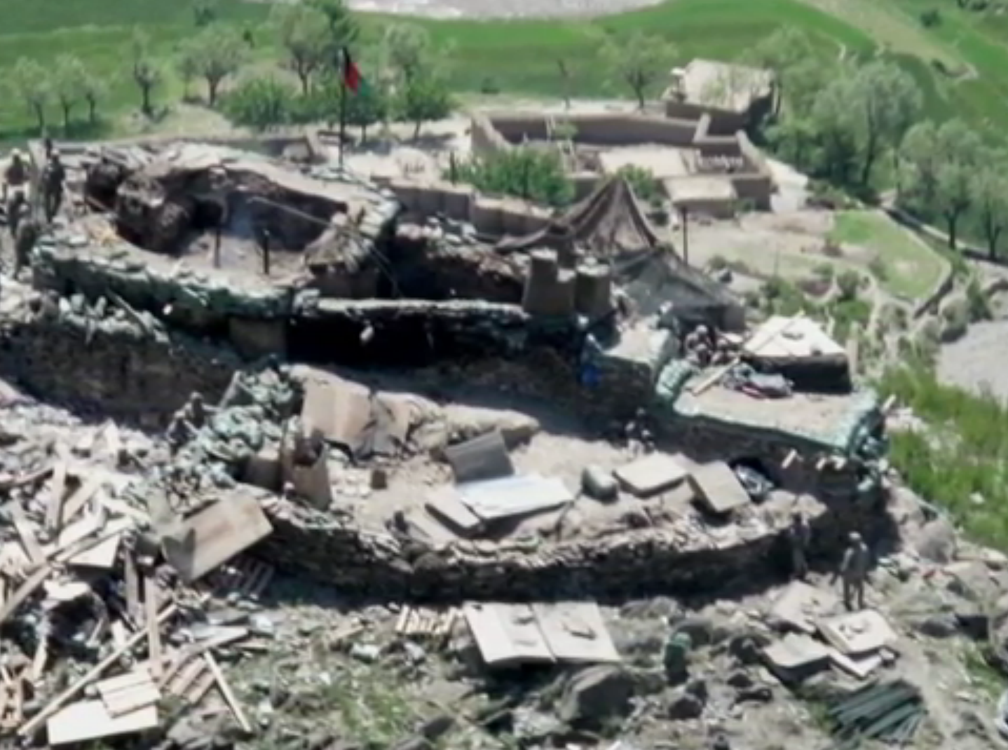 Aftermath of Observation Post Bari Alai in Kunar Province follow a large scale Taliban attack. Dated May 1st, 2009.